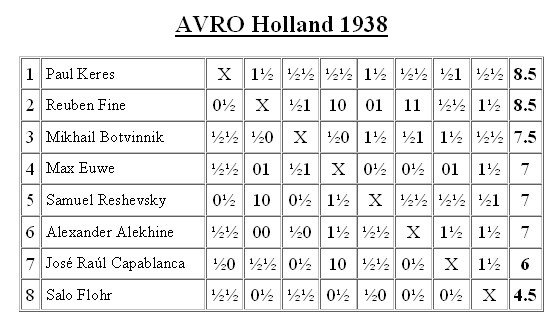 Chess_AVRO_Holland_1938